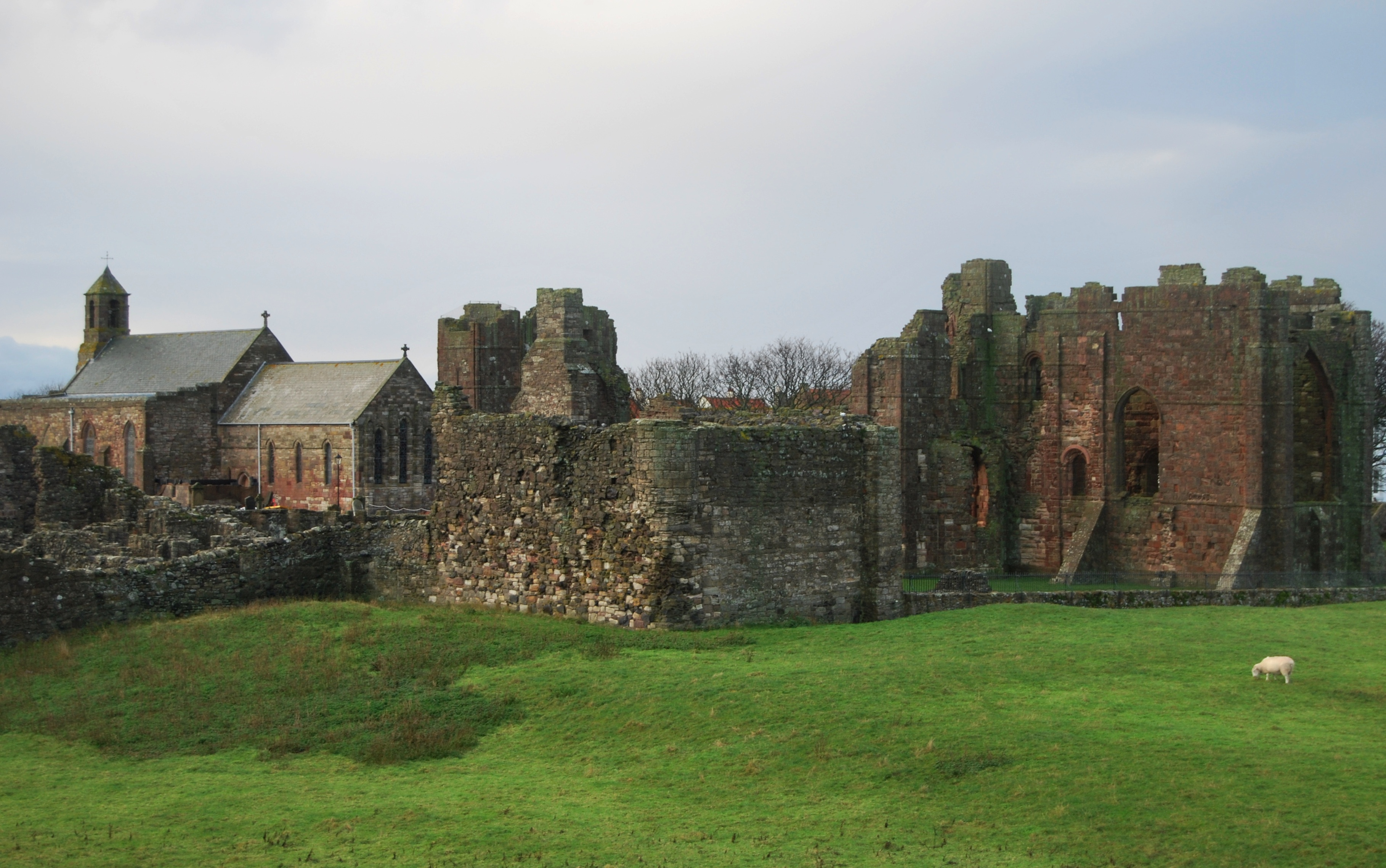 The ruined Abbey on Lindisfarne